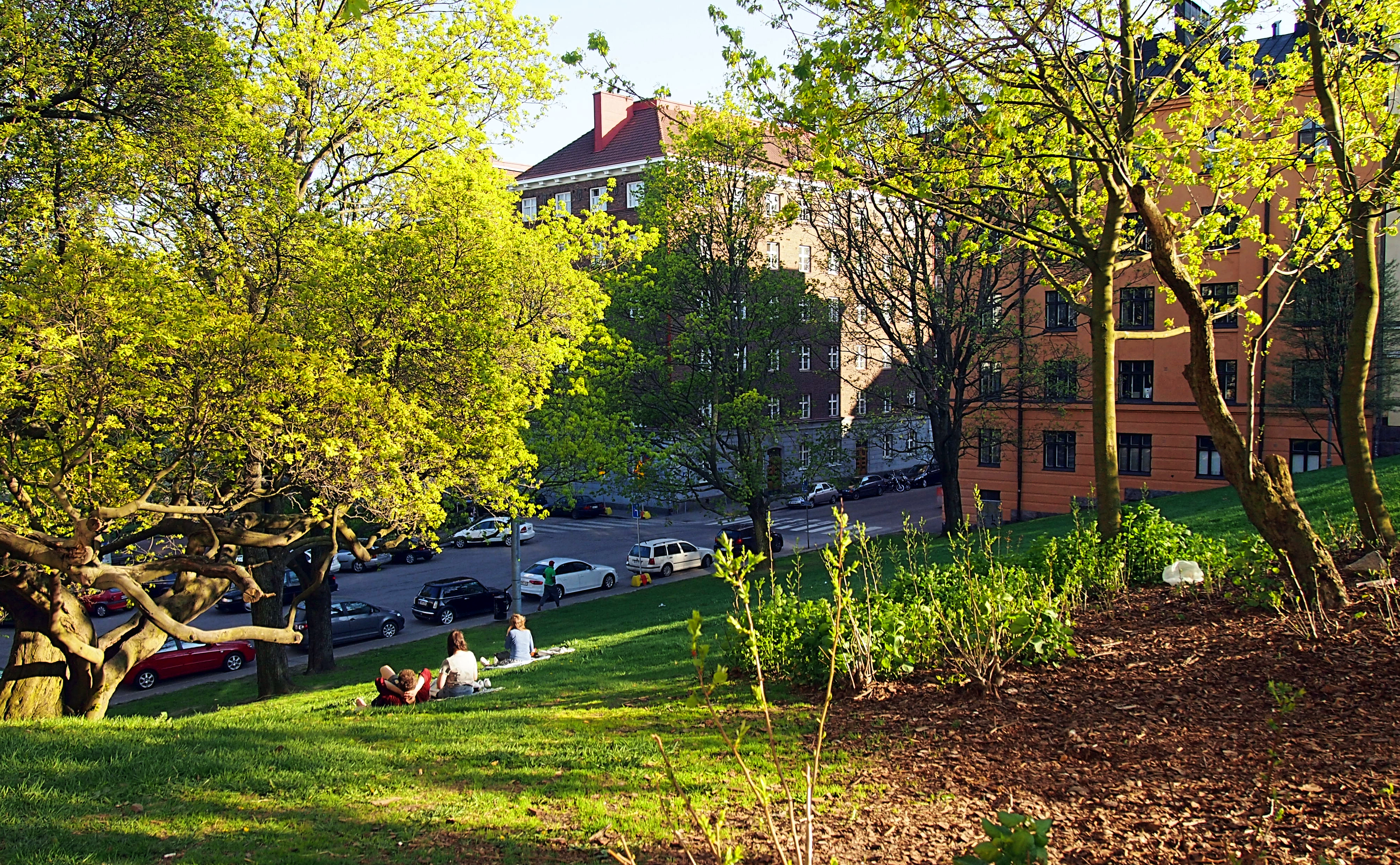 The park "Alli Tryggin puisto" in Helsinki, Finland. It lies in the district of Kallio between the streets Hämeentie and Porthaninkatu.